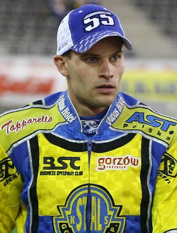 Matej Žagar in season 2012